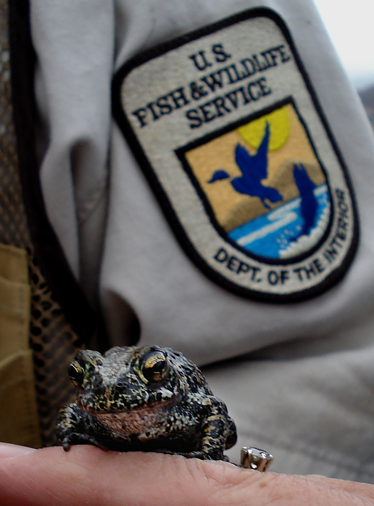 FALLON, Nev. (April 14, 2009) A newly discovered toad species at Naval Air Station Fallon is tagged with a passive integrated transponder (PIT). Ninety-six toads were PIT tagged during a 2009 effort, leading to a better understanding of the toad's range, life history, and habitat needs. This information will be used to develop a Candidate Conservation Agreement between the U.S. Fish and Wildlife Service's Nevada Fish and Wildlife office and the U.S. Navy. (U.S. Navy photo by James Harter/Released)